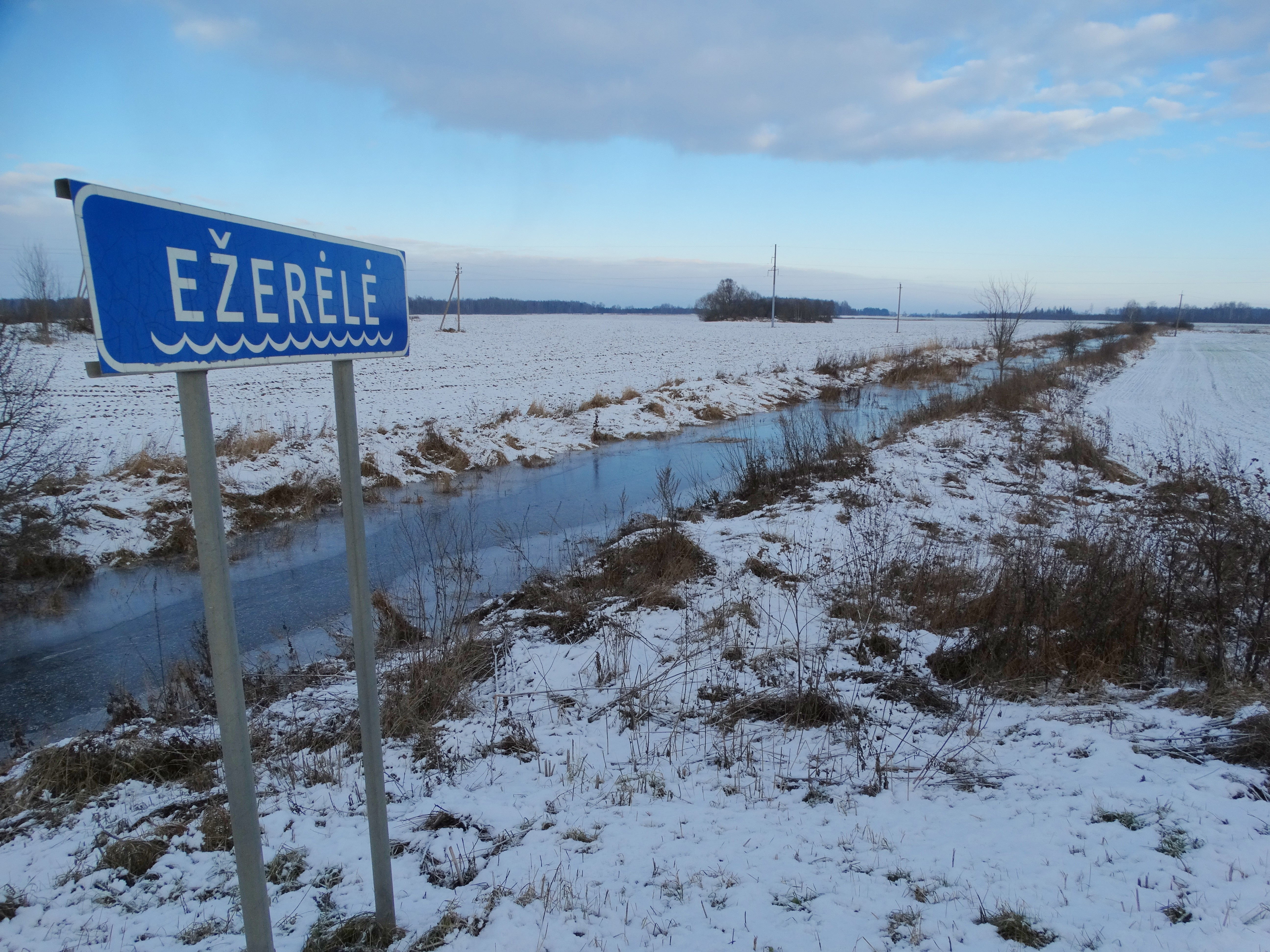 Ežerėlė River, Pakruojis District, Lithuania